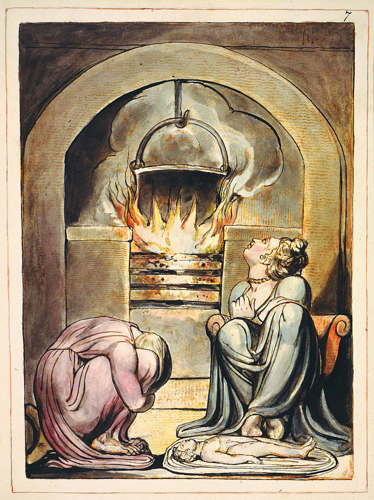 Plate from Europe a Prophecy, copy K, in the collection of the Fitzwilliam Museum, Cambridge University.